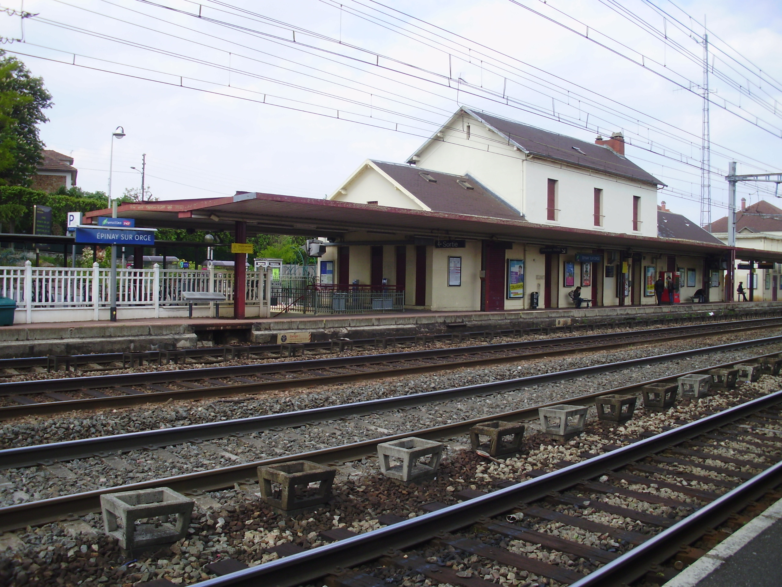 Épinay-sur-Orge station, Essonne, France (view since the opposite platform)